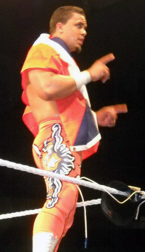 Primo at a WWE House show in Puerto Rico